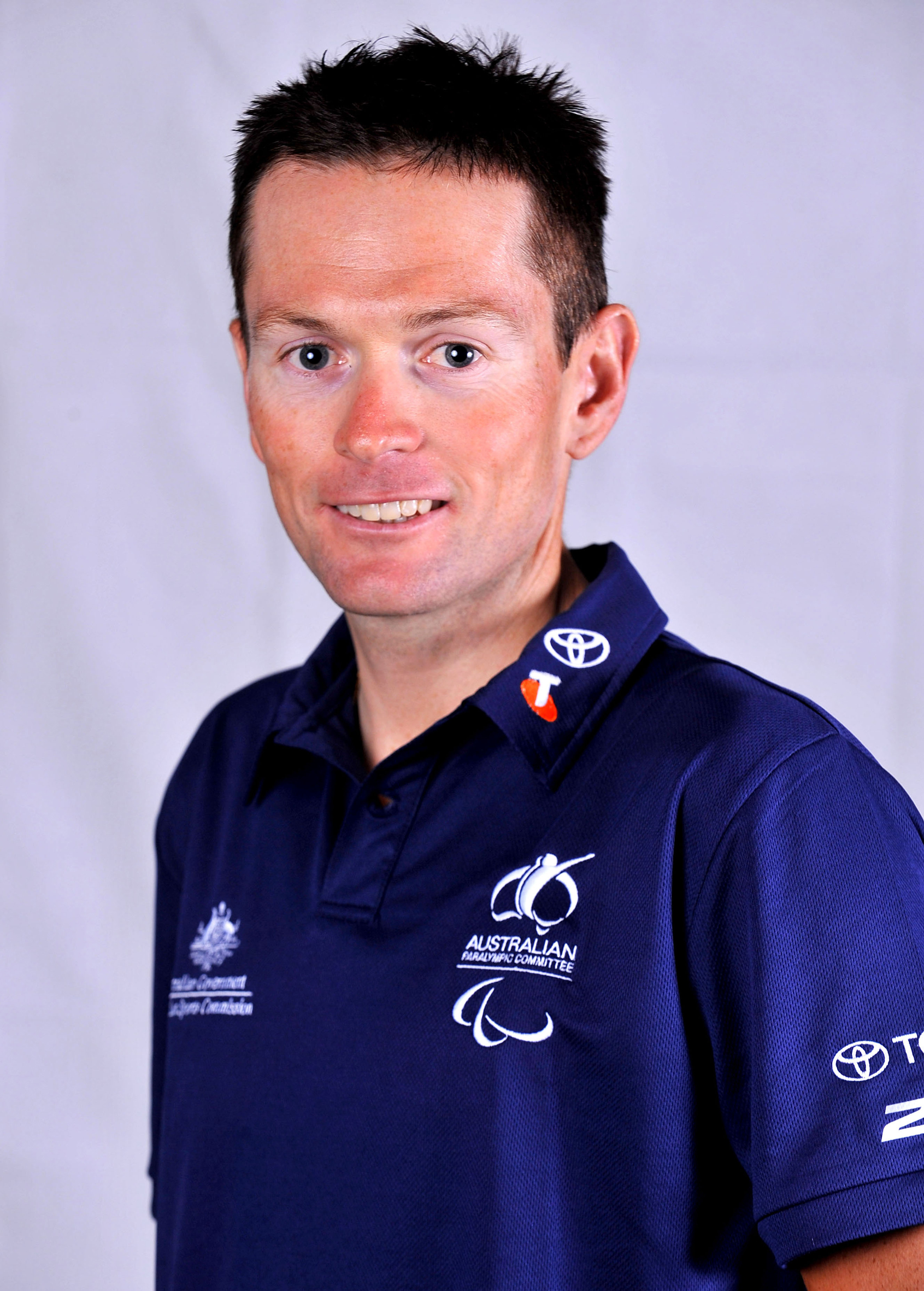 Portrait of Australian cyclist Michael Gallagher, 2012 Australian Paralympic (shadow) Team athlete